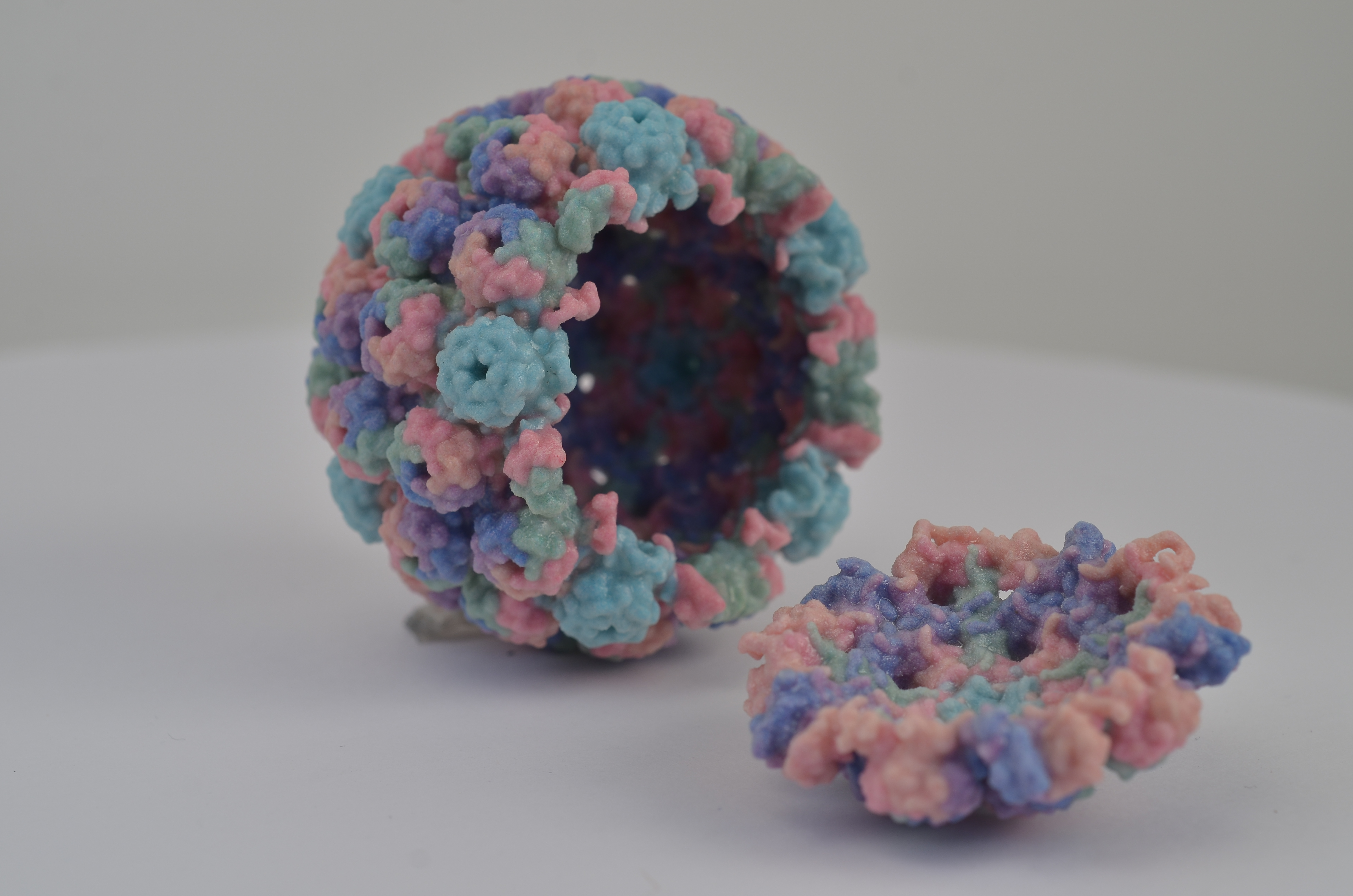 3D print of polyomavirus. There are many types of polyomaviruses, which can infect people with compromised immune systems such as HIV/AIDS patients. For more information, visit the NIH 3D Print Exchange at . Credit: NIH